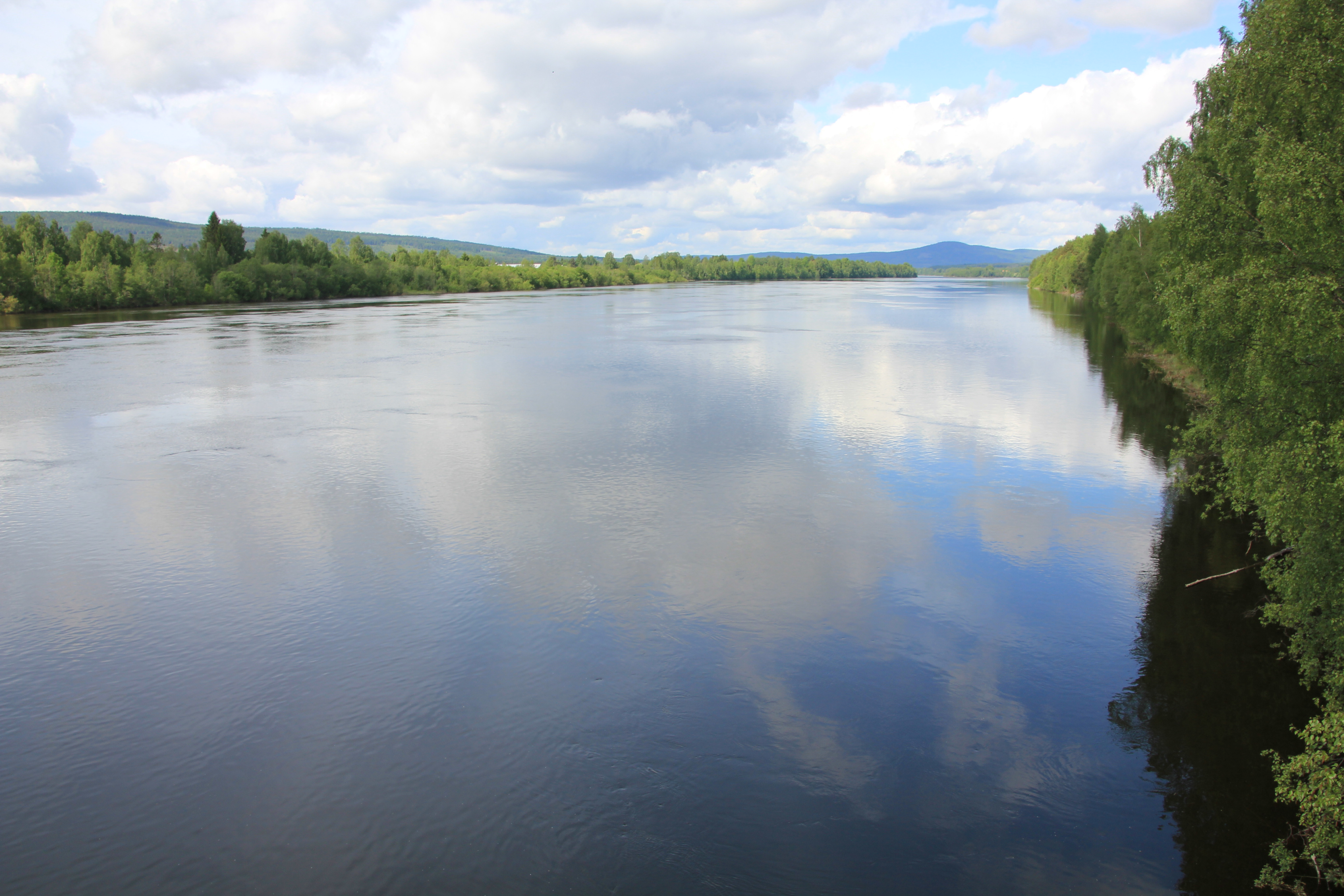 Glomma River, the longest river of Norway. Glomma elv gjennom Sør-Odal, Hedmark.